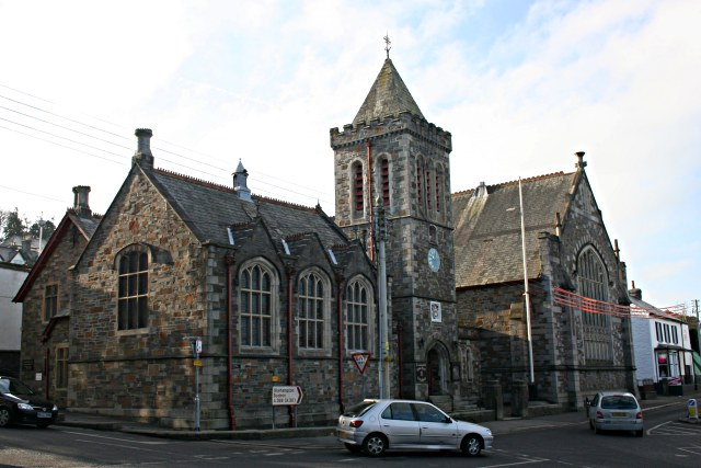 Launceston Town Hall and Guildhall These two buildings were built side by side in the 19th century, the Guildhall in 1851 and the Town Hall in 1887.